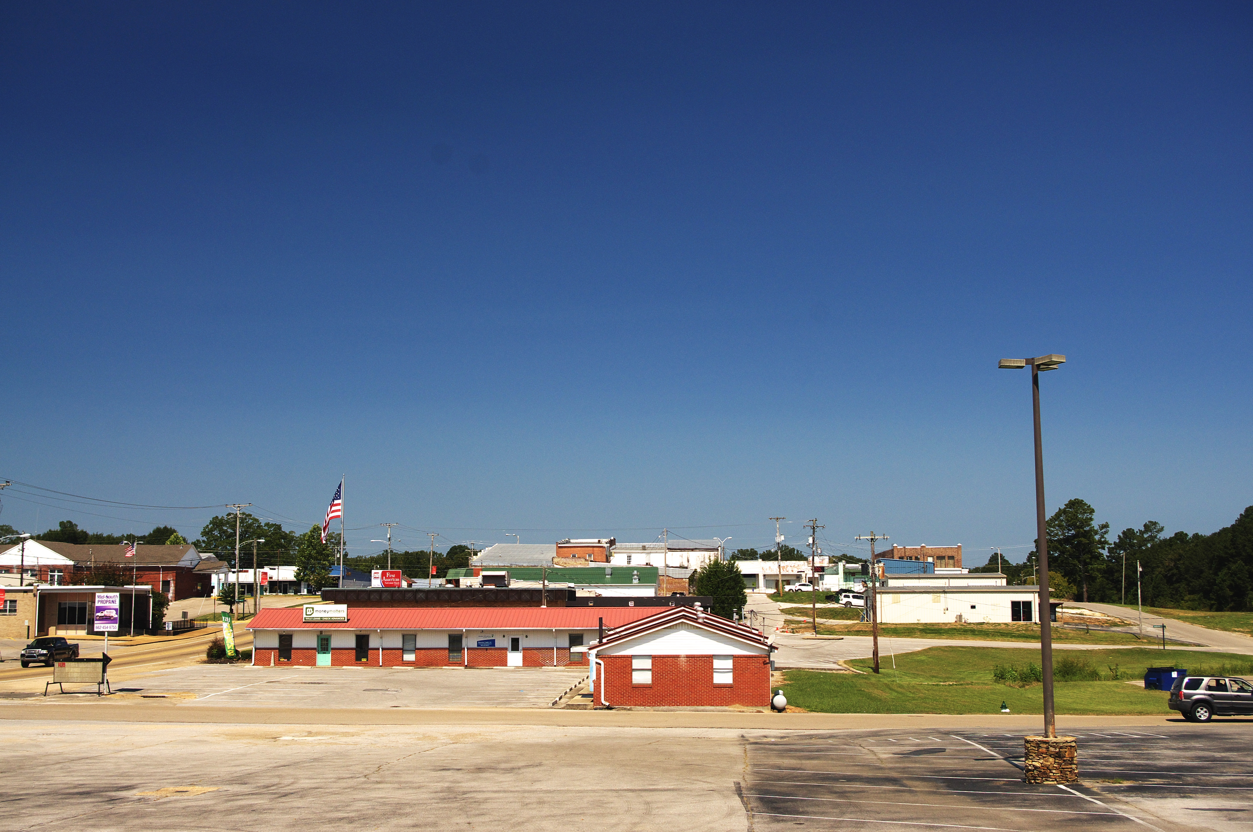 Belmont, Mississippi, United States, viewed looking northwest from Yarber Street.